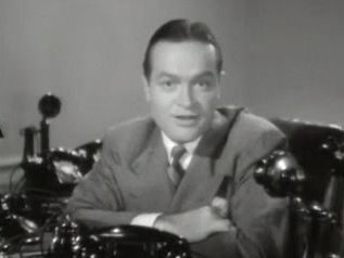 Cropped screenshot of Bob Hope from the trailer for the film The Ghost Breakers.